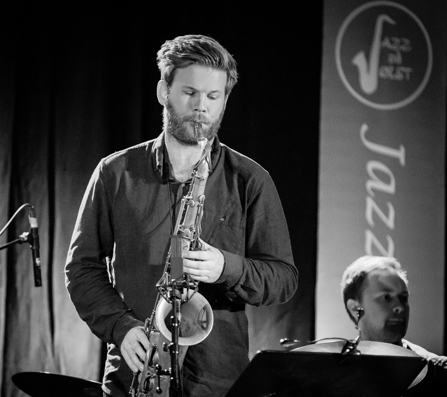 André Roligheten with Significant Time at the stage at Thon Hotel Jølster. The concert was part of Jazz på Jølst and took place on 14. October 2017. Lineup: Øyvind Dale (piano), Signe Irene Time (vocal), Fredrik Luhr Dietrichson (double bass), André Roligheten (saxophone), Hayden Powell (trumpet) and Raymond Lavik (drums).